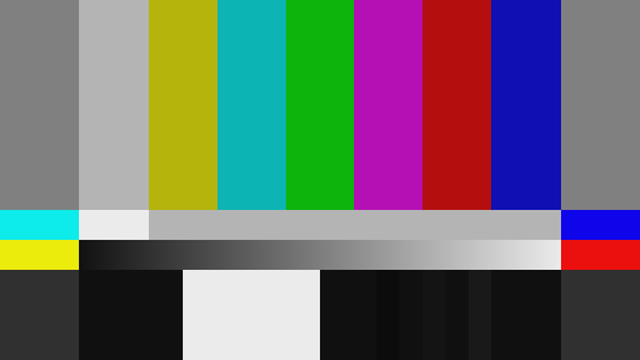 中文（中国大陆）: Color bar of Association of Radio Industries and Businesses